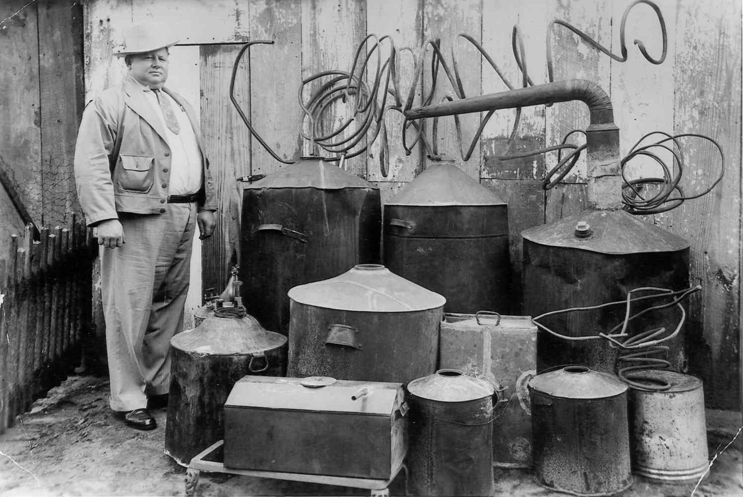 Archival photo of a Texas Liquor Control Board agent posting with an illegal moonshine still.